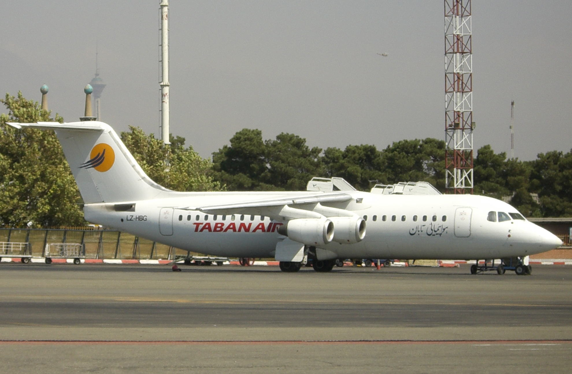 Taban Air at Tehran Airport